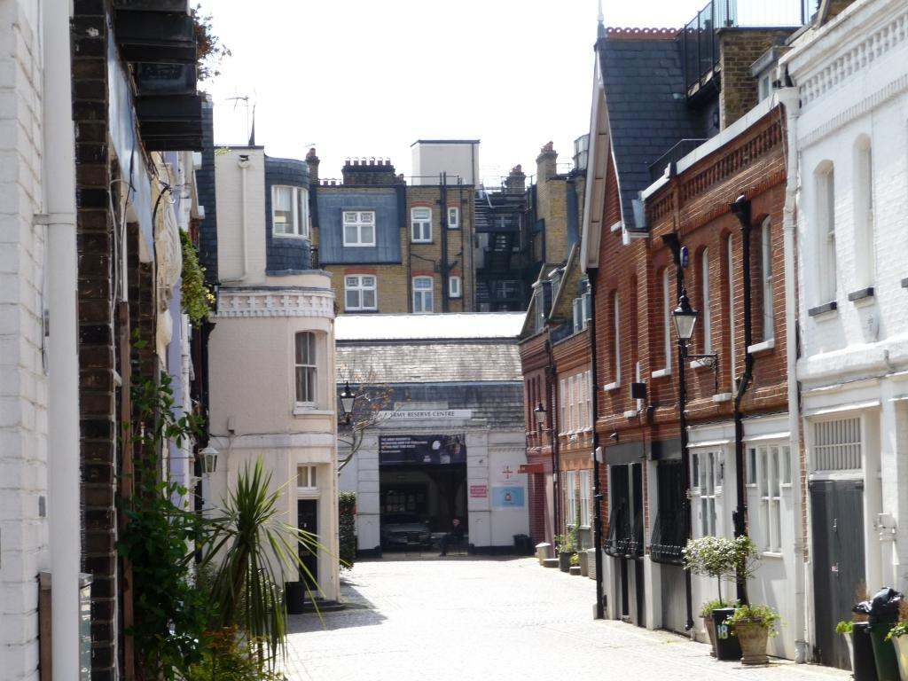 Vehicle entrance, Army Reserve Centre, Adam & Eve Mews